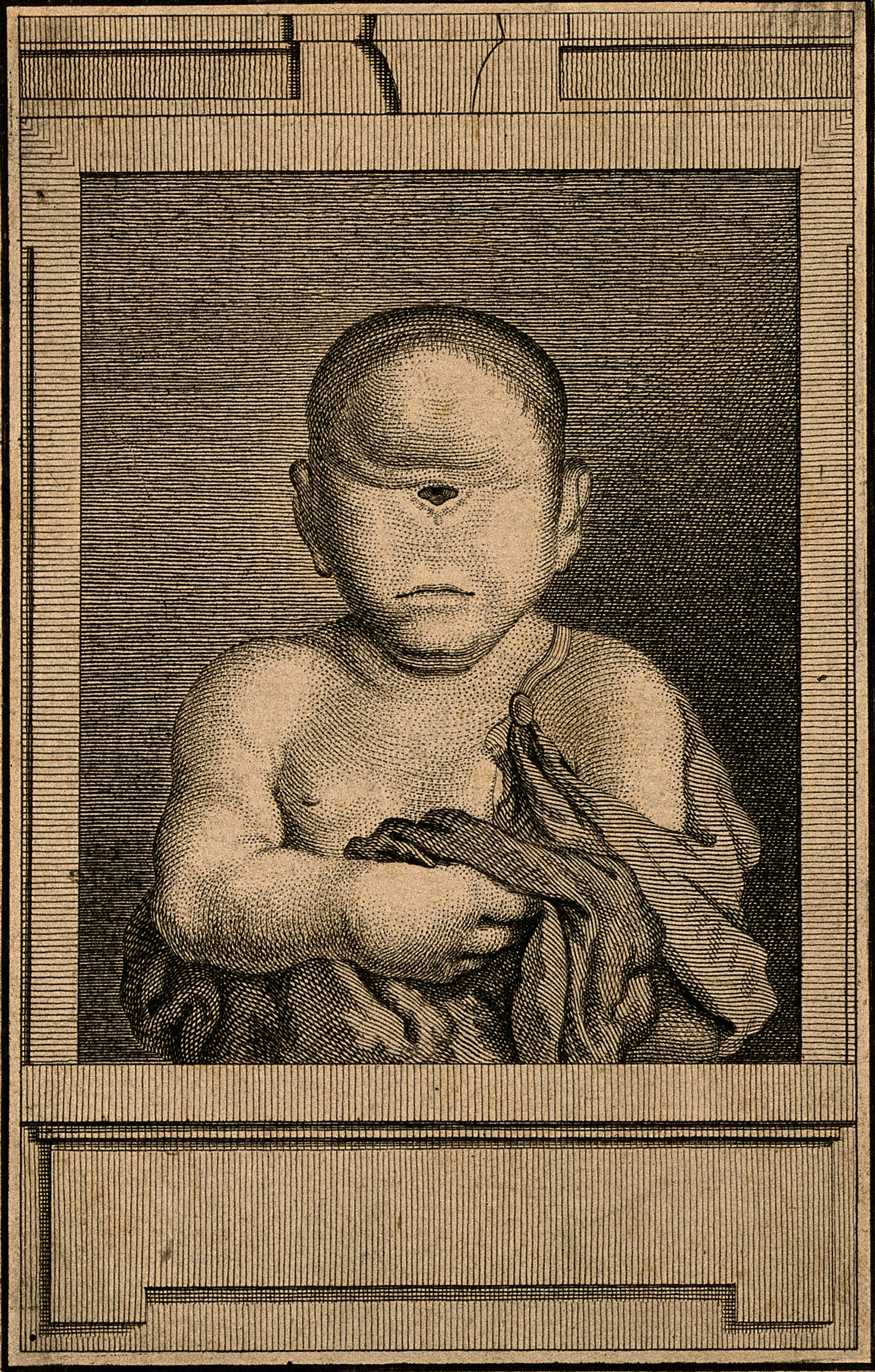 An infant with one central eye. Engraving. Iconographic Collections Keywords: portrait prints; CYCLOPIA; engravings